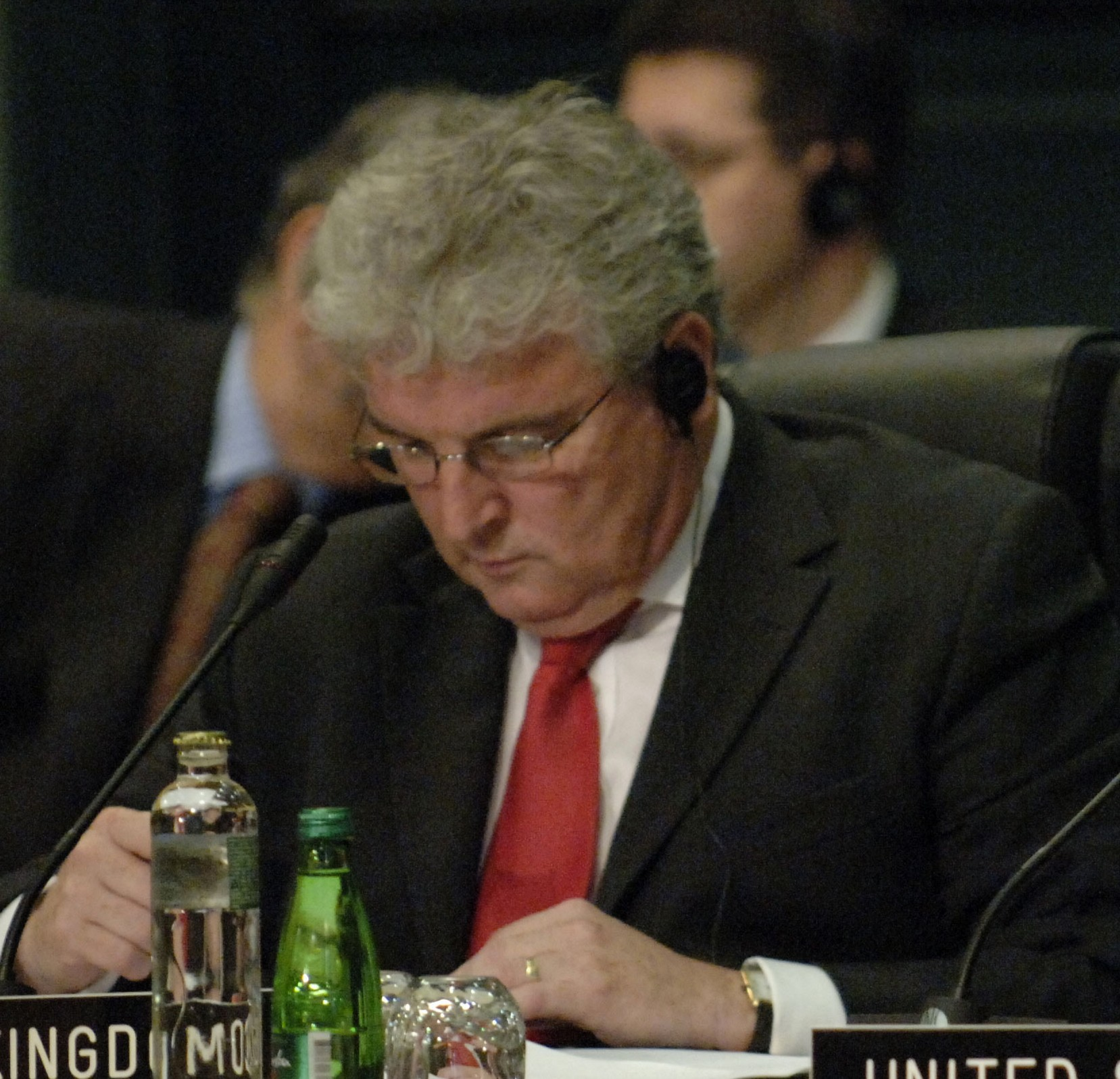 "United Kingdom Minister of Defense Des Browne, left, and Secretary of Defense Donald H. Rumsfeld listen to remarks during the NATO-Russia Council meeting in Portoroz, Slovenia, Sept. 29, 2006. Rumsfeld is visiting Slovenia to attend the NATO Defense Ministerial and conduct bilateral discussions with Slovenian leaders. DoD photo by James M. Bowman, U.S. Air Force. (Released) (Released to Public)"